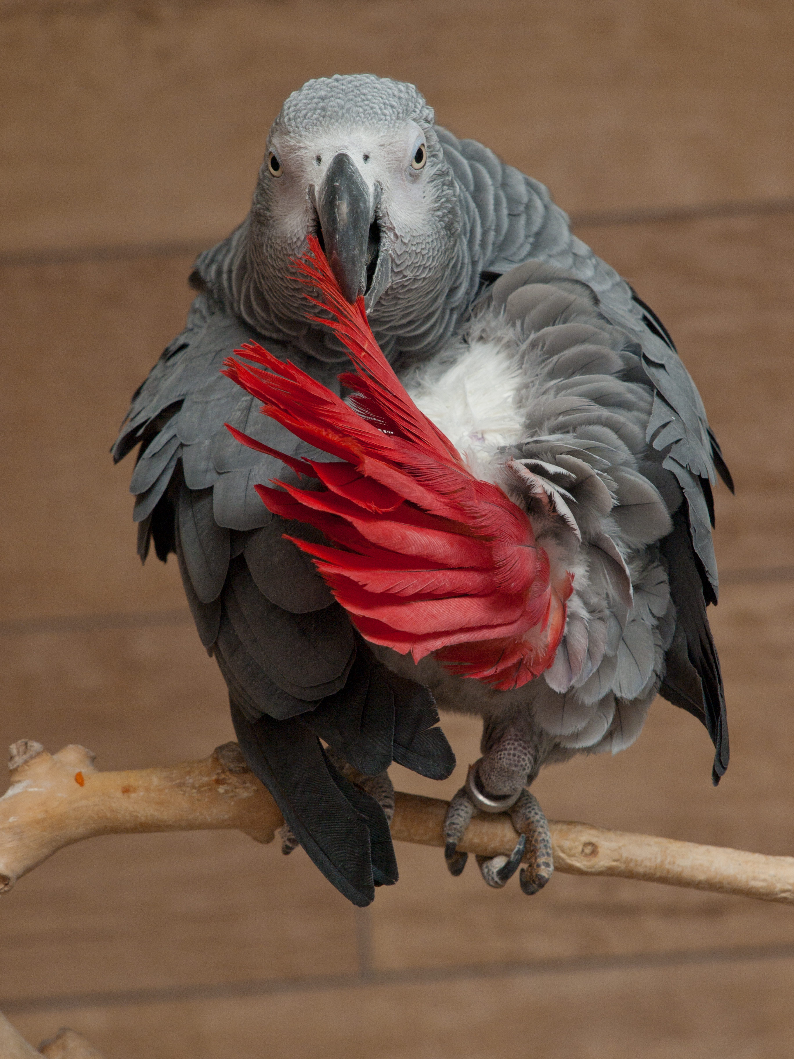 African grey parrot pet (Psittacus erithacus)